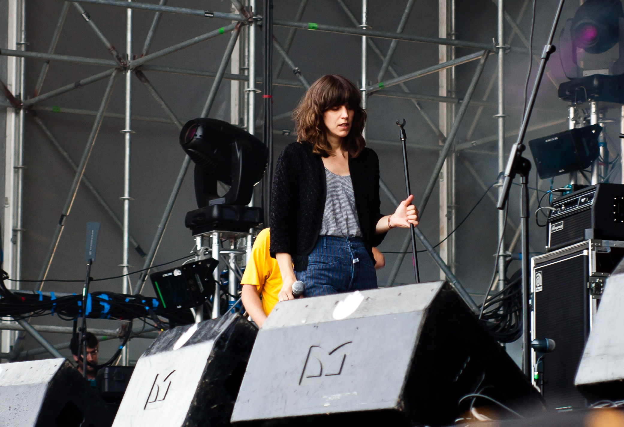 The Fiery Furnaces